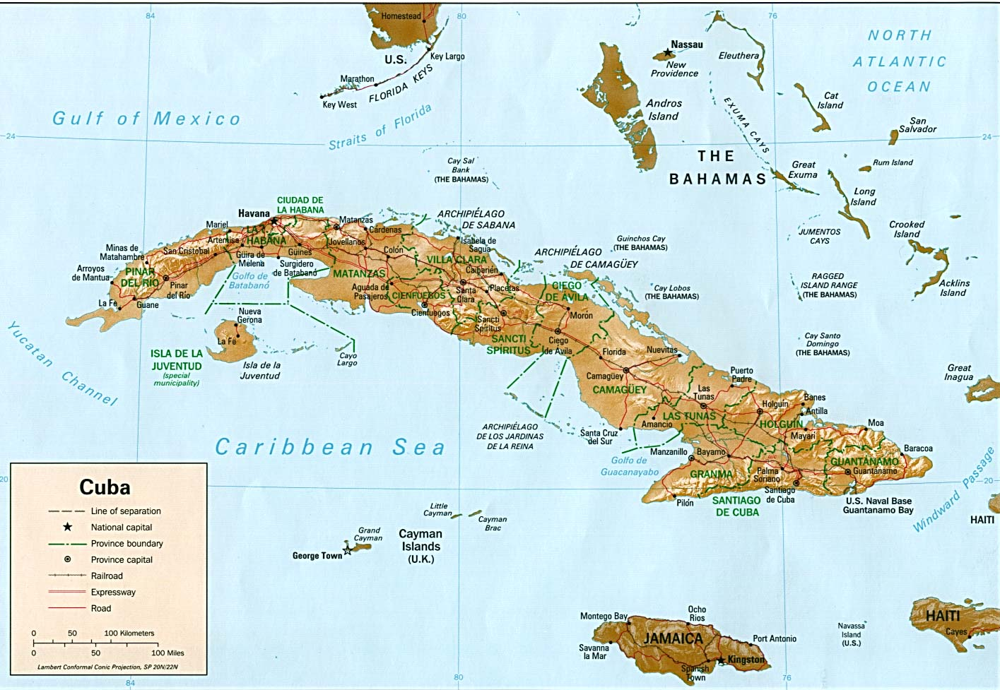 Map of Cuba